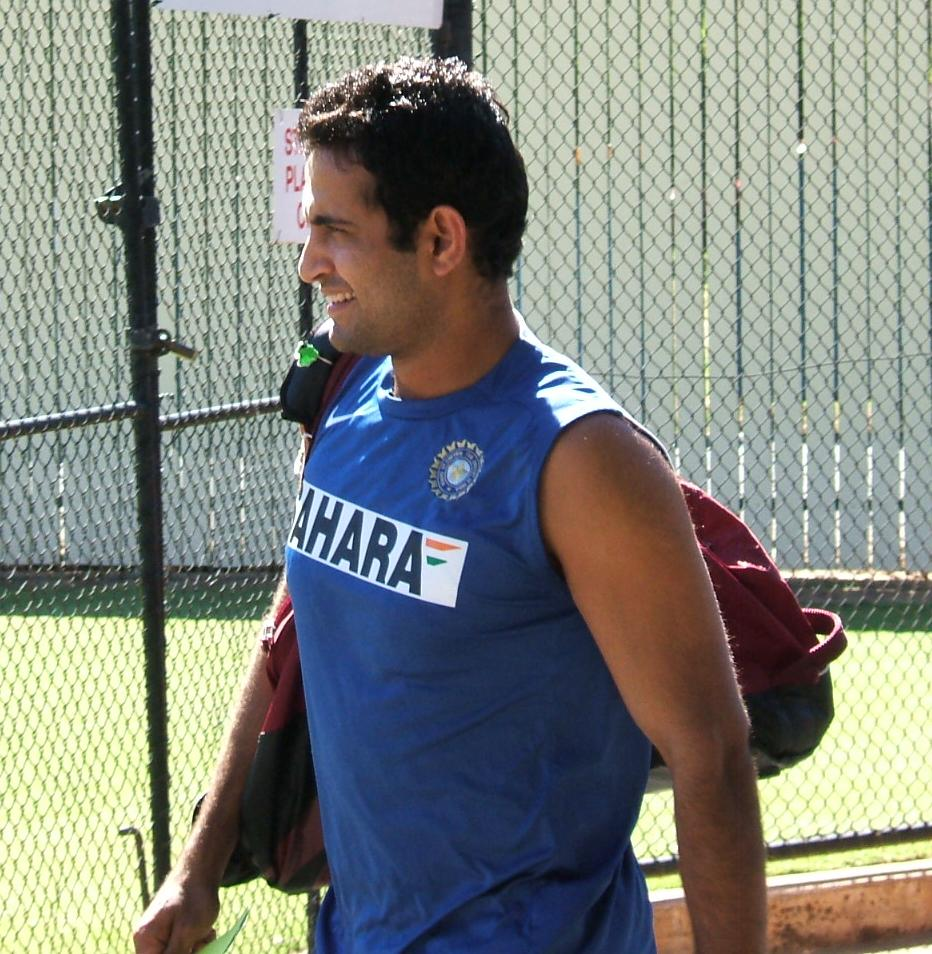 Irfan Pathan at Adelaide Oval